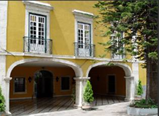 Estação de Santo Amaro